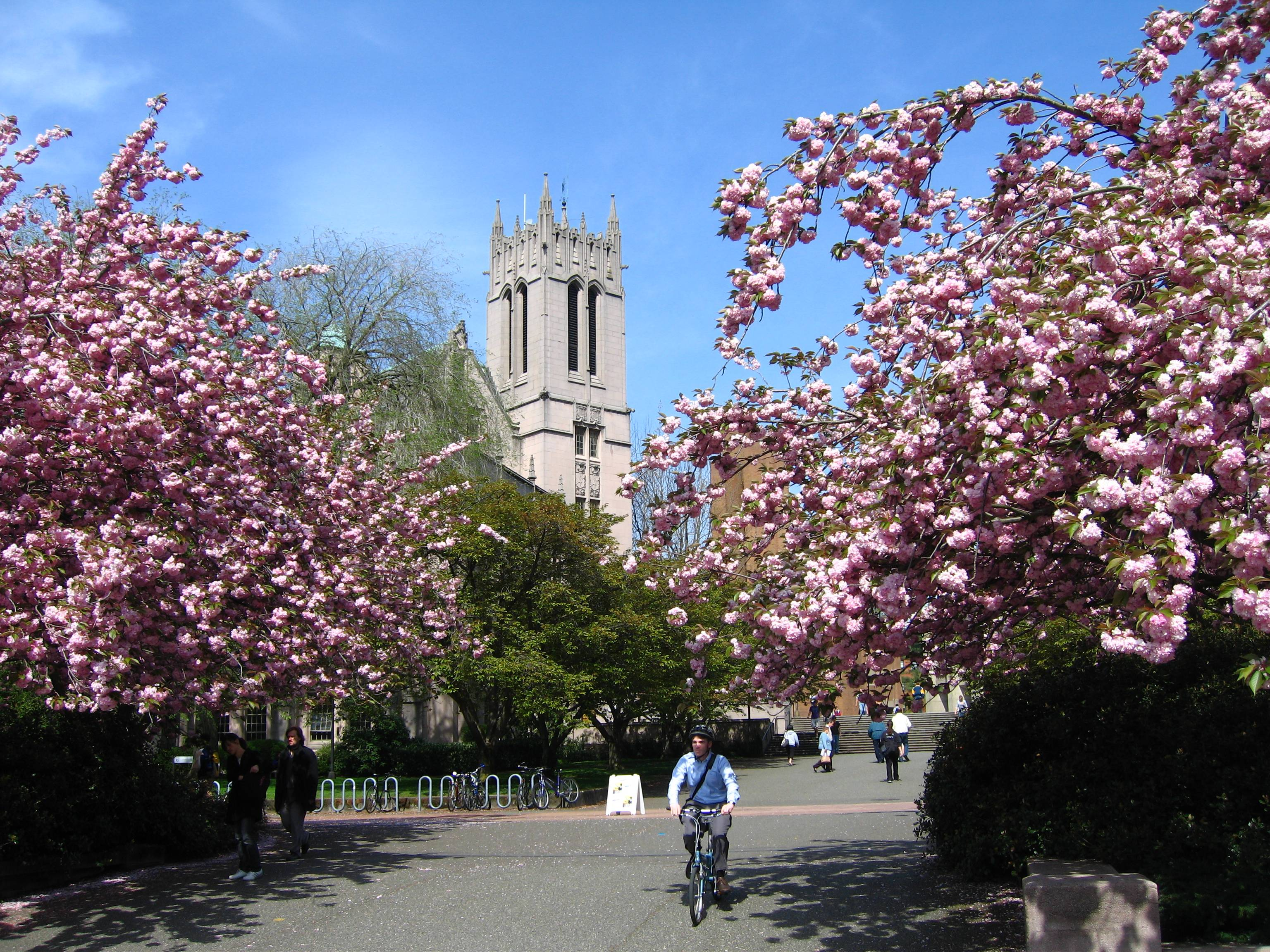 University of Washington: Gerberding Hall.